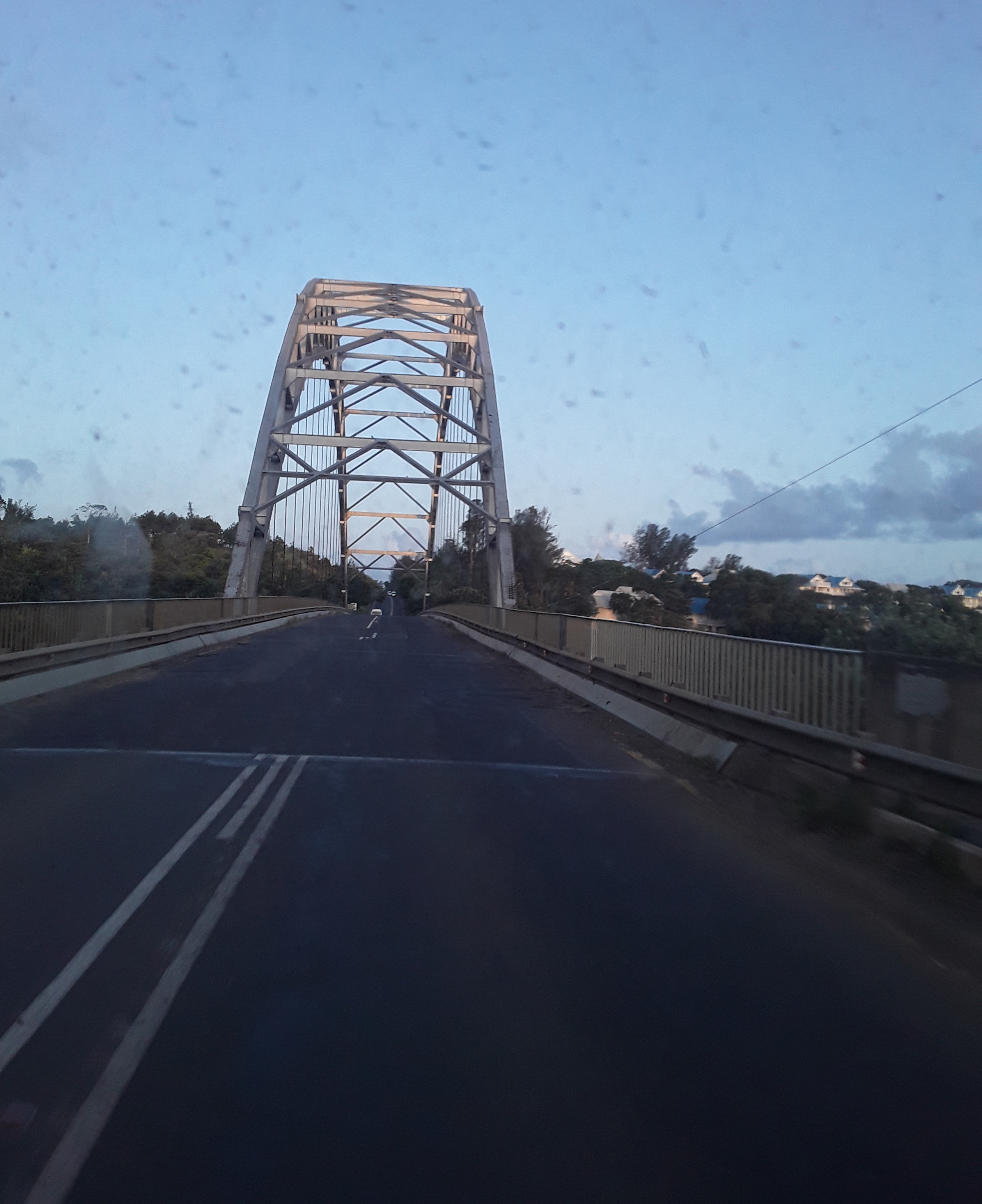 Mtamvuna bridge crossing the Mtamvuna River mouth between KwaZulu-Natal and the Eastern Cape